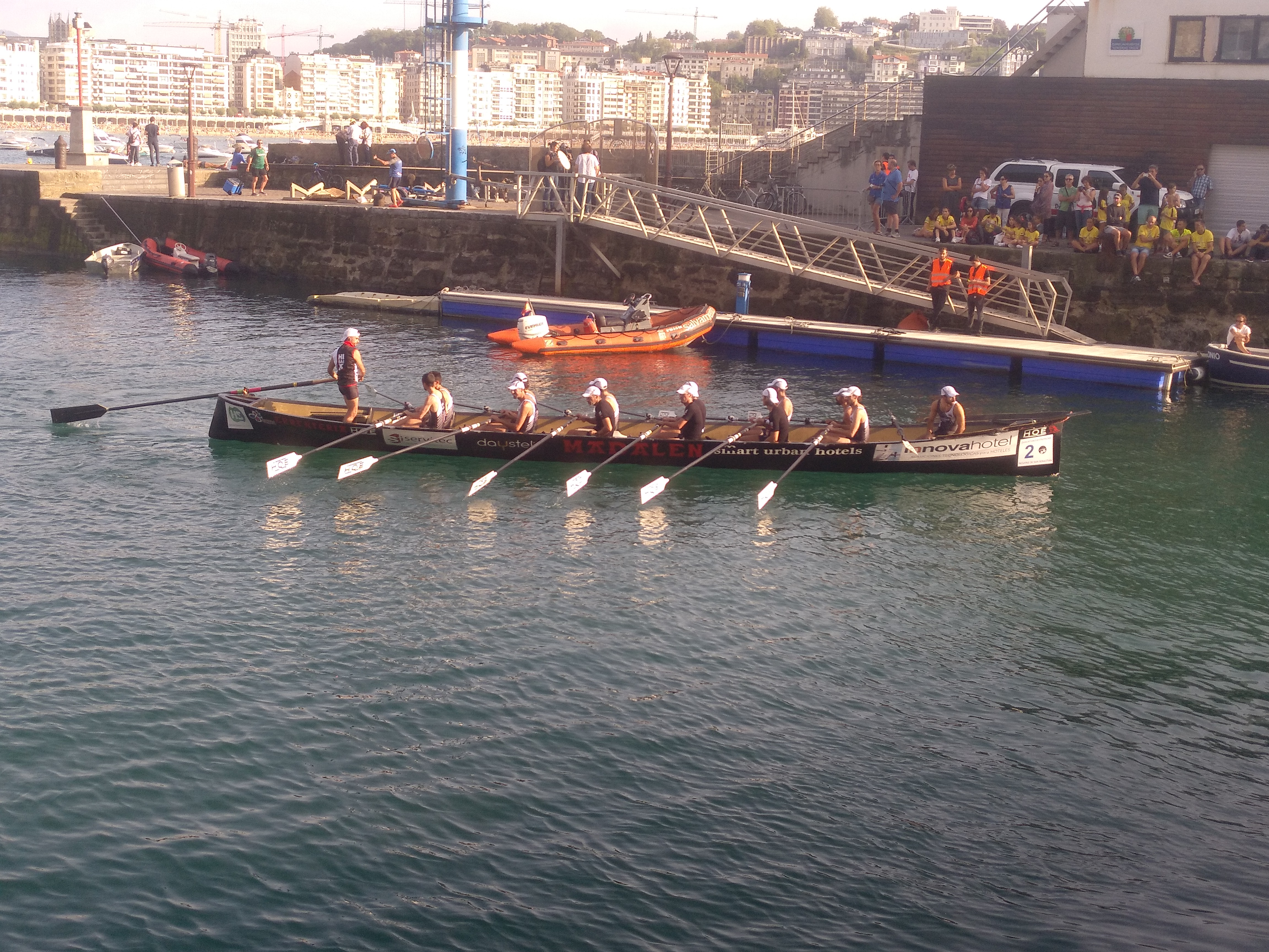 Hibaika Arraun Elkartea, Flag of La Concha, 2018